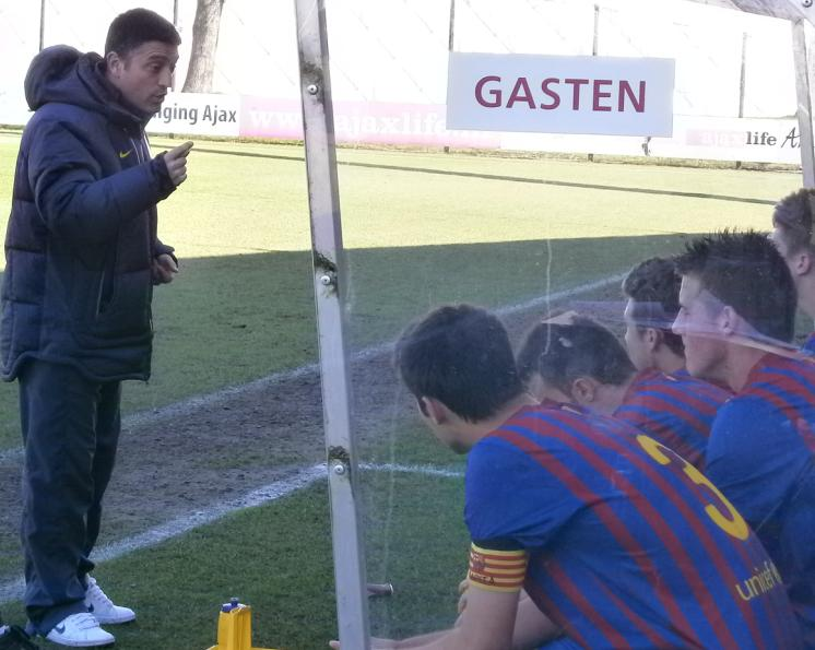 Francisco Javier García Pimienta as coach of FC Barcelona Juvenil B, Future Cup 2012